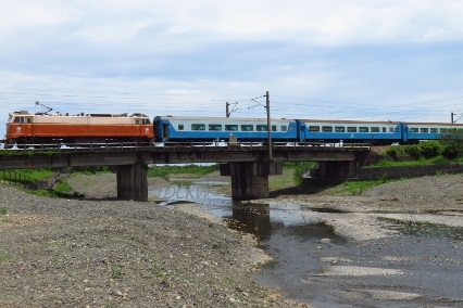 中文（台灣）: 台鐵宜蘭線下七結橋 was filmed by TDCKW on 20190608